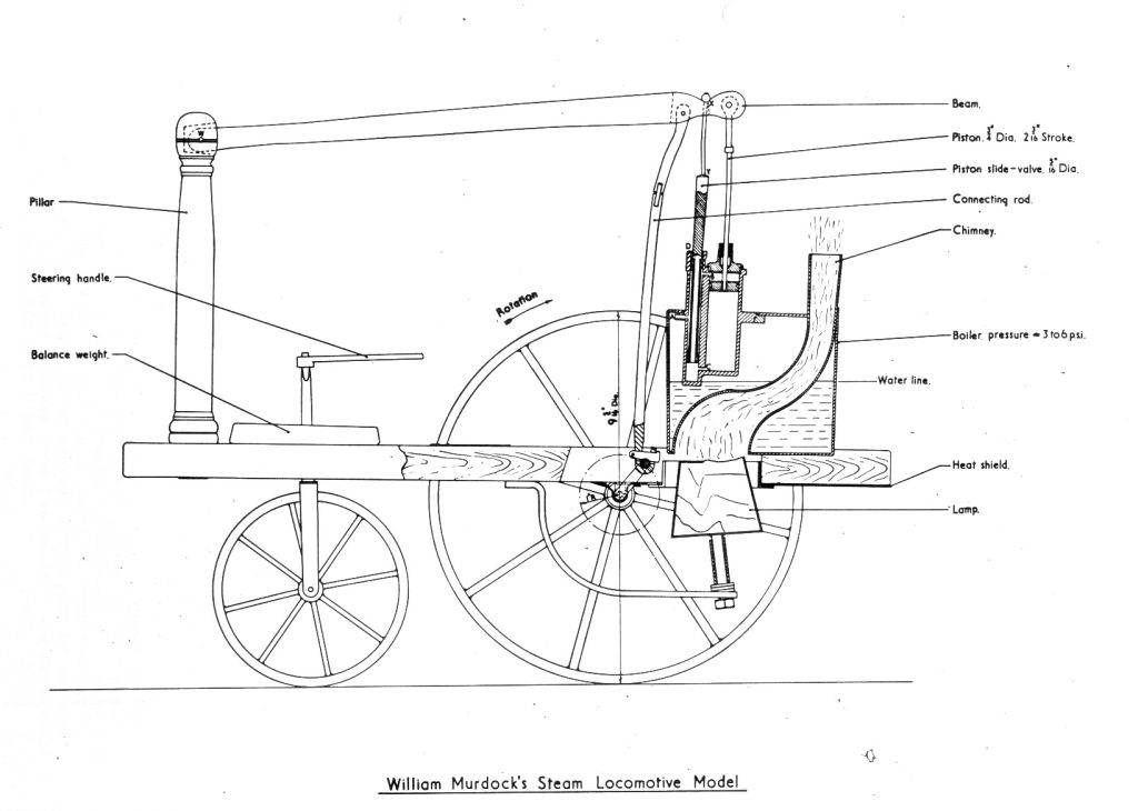 Schematic diagram of William Murdock's steam locomotive model